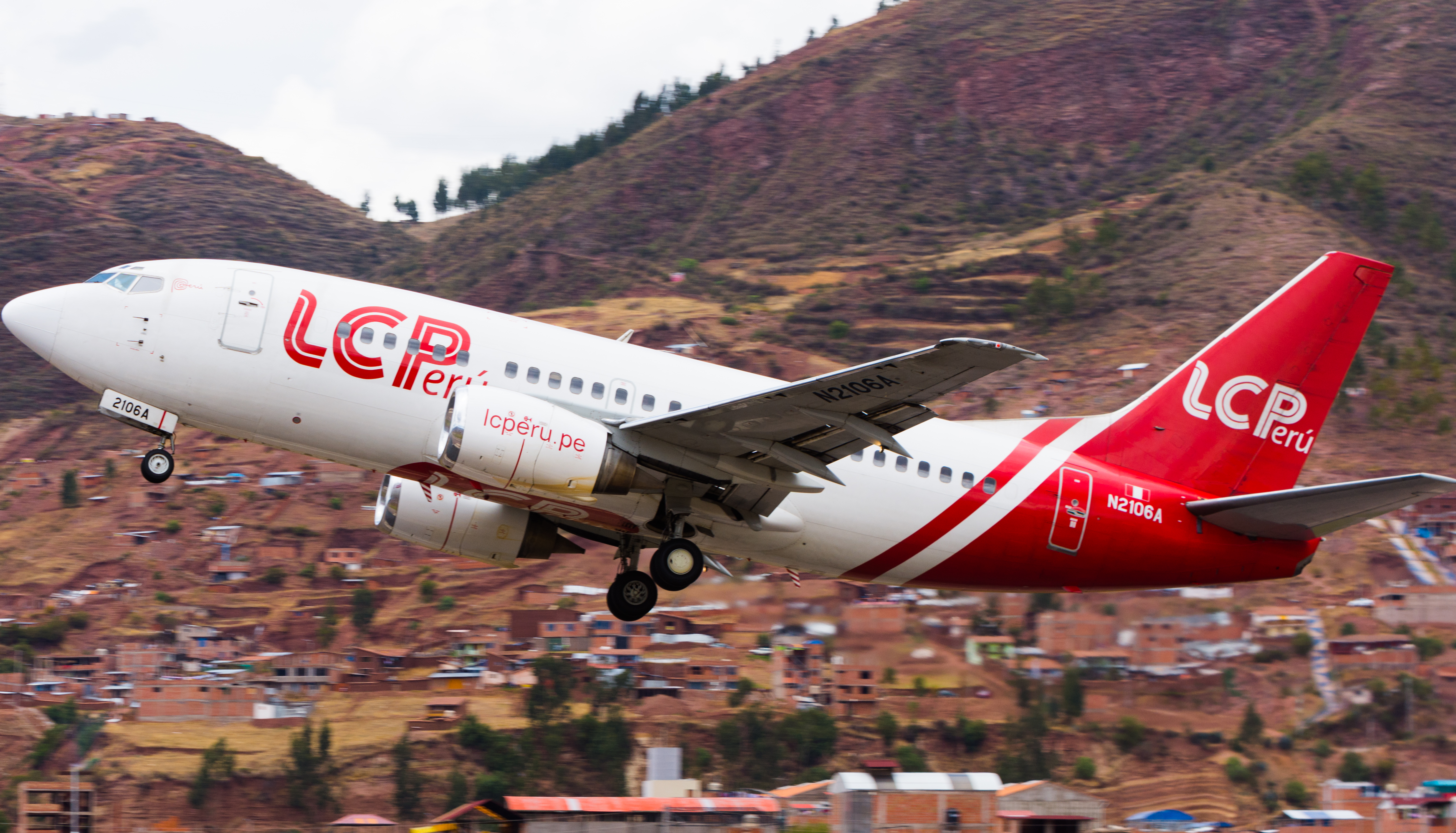 Boeing 737-500 of LCPerú